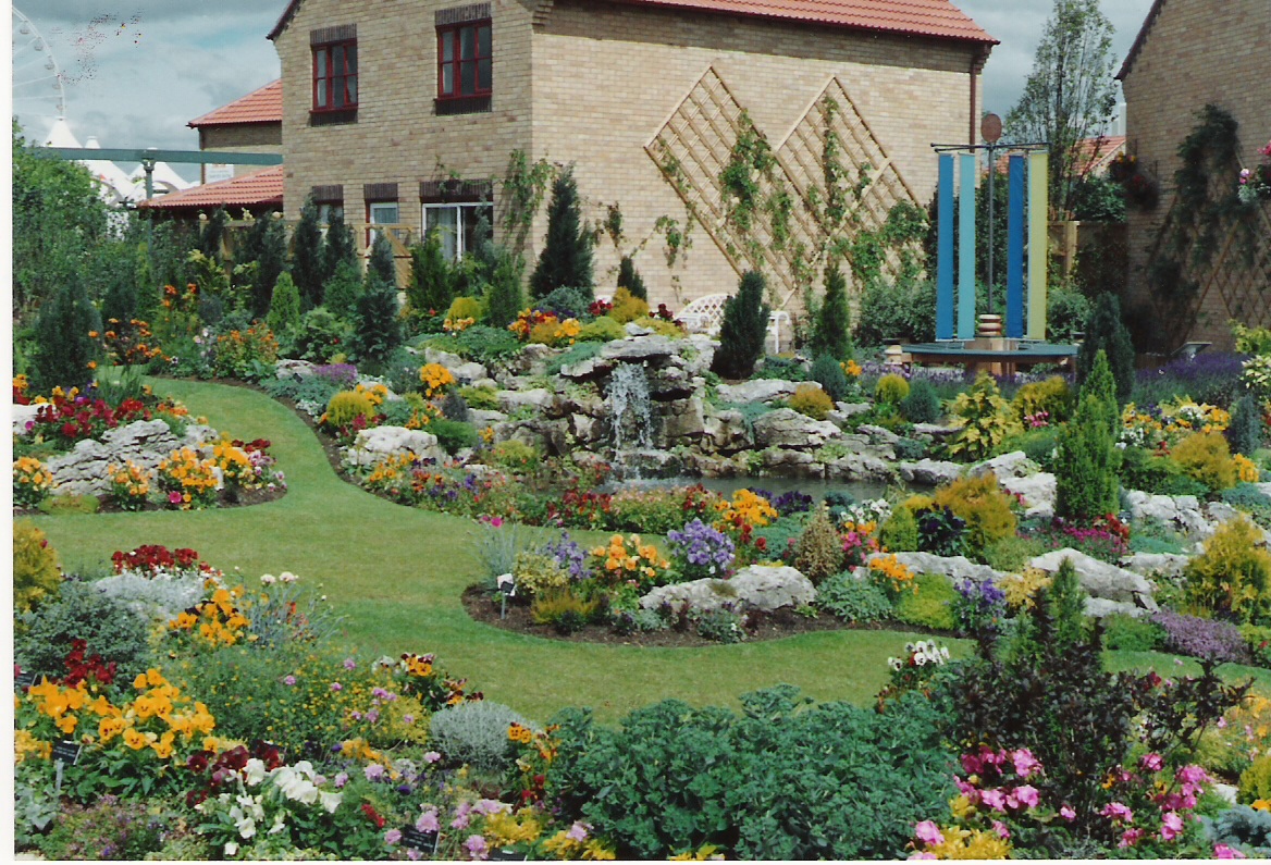 One of a series of photographs taken within National Garden Festival including views from periphery